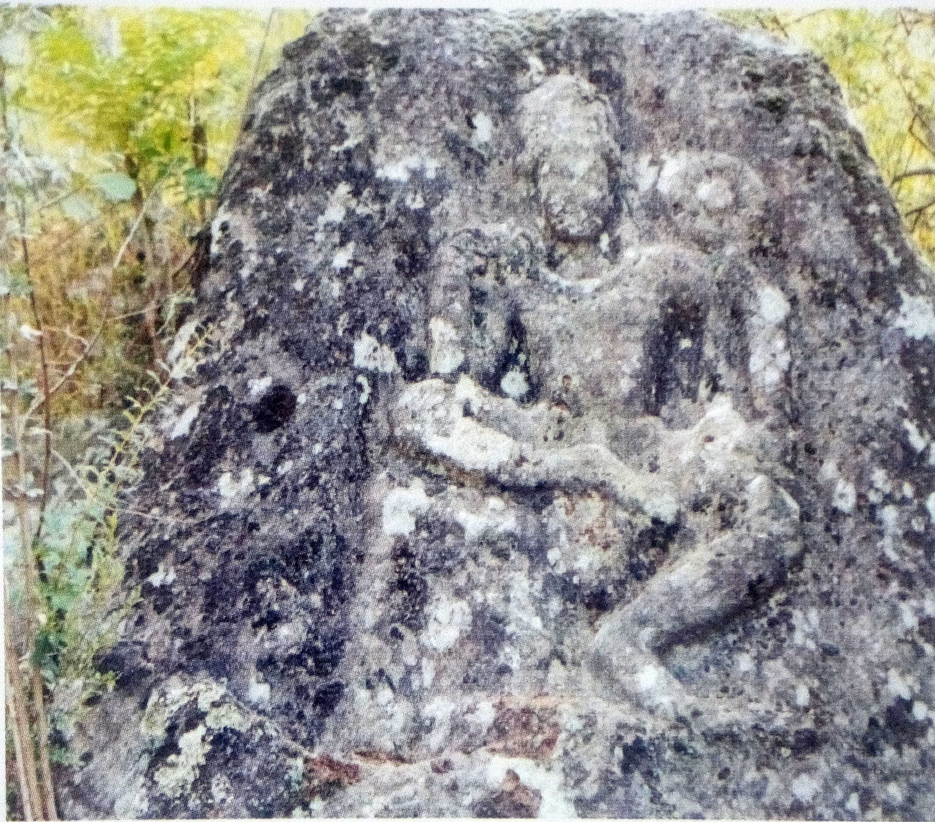 Buddhist Rock Carvings in Manglawar